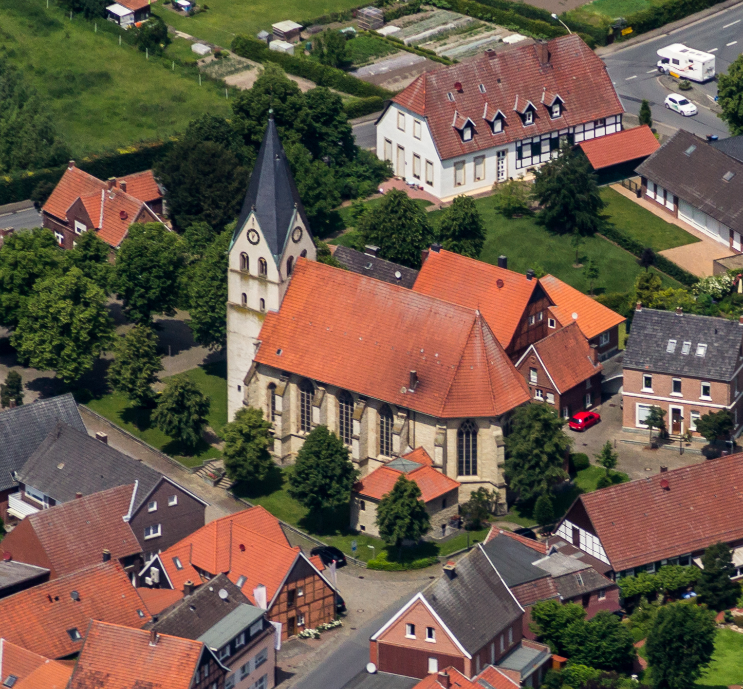 St. Lambertus Church, Hoetmar, Warendorf, North Rhine-Westphalia, Germany This image shows a heritage building in Germany, located in the North Rhine-Westphalian city Warendorf (no. 137).